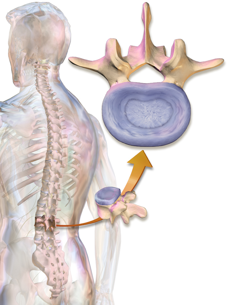 Annulus Fibrosus. Animation in the reference.[1]